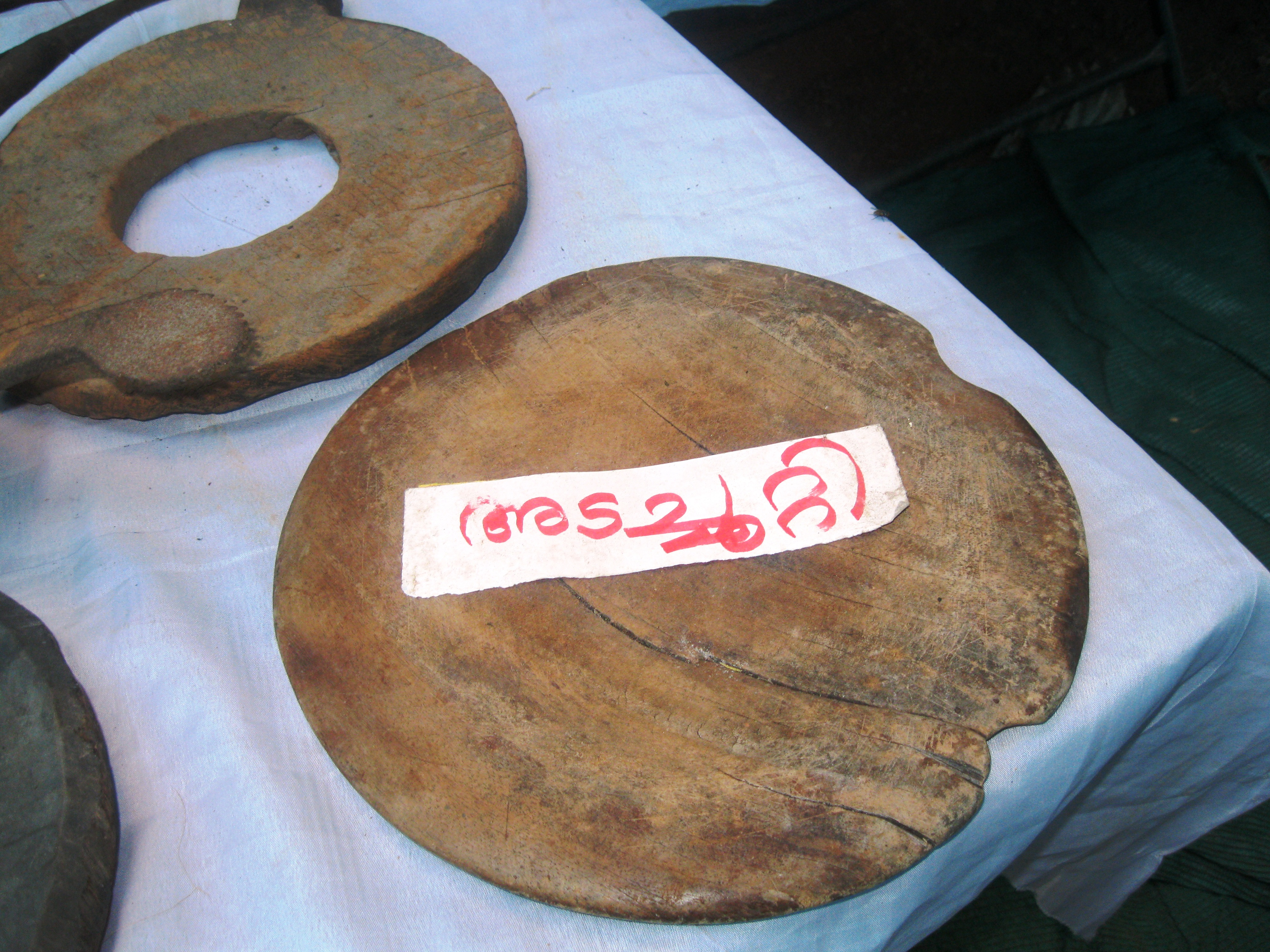 for removing water from rice soup